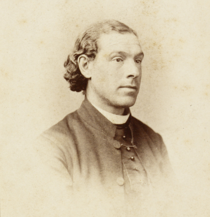 Julian Tenison-Woods, Australian geologist, c.1875, from albumen print, State Library of New South Wales PXA 362 Vol 6